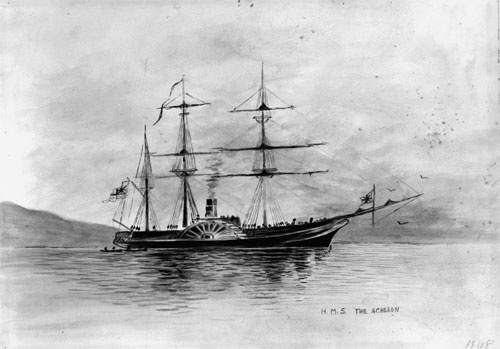 HMS Acheron, a Royal Navy paddle sloop and later survey vessel. Surveyed New Zealand in the 1840s and 1850s